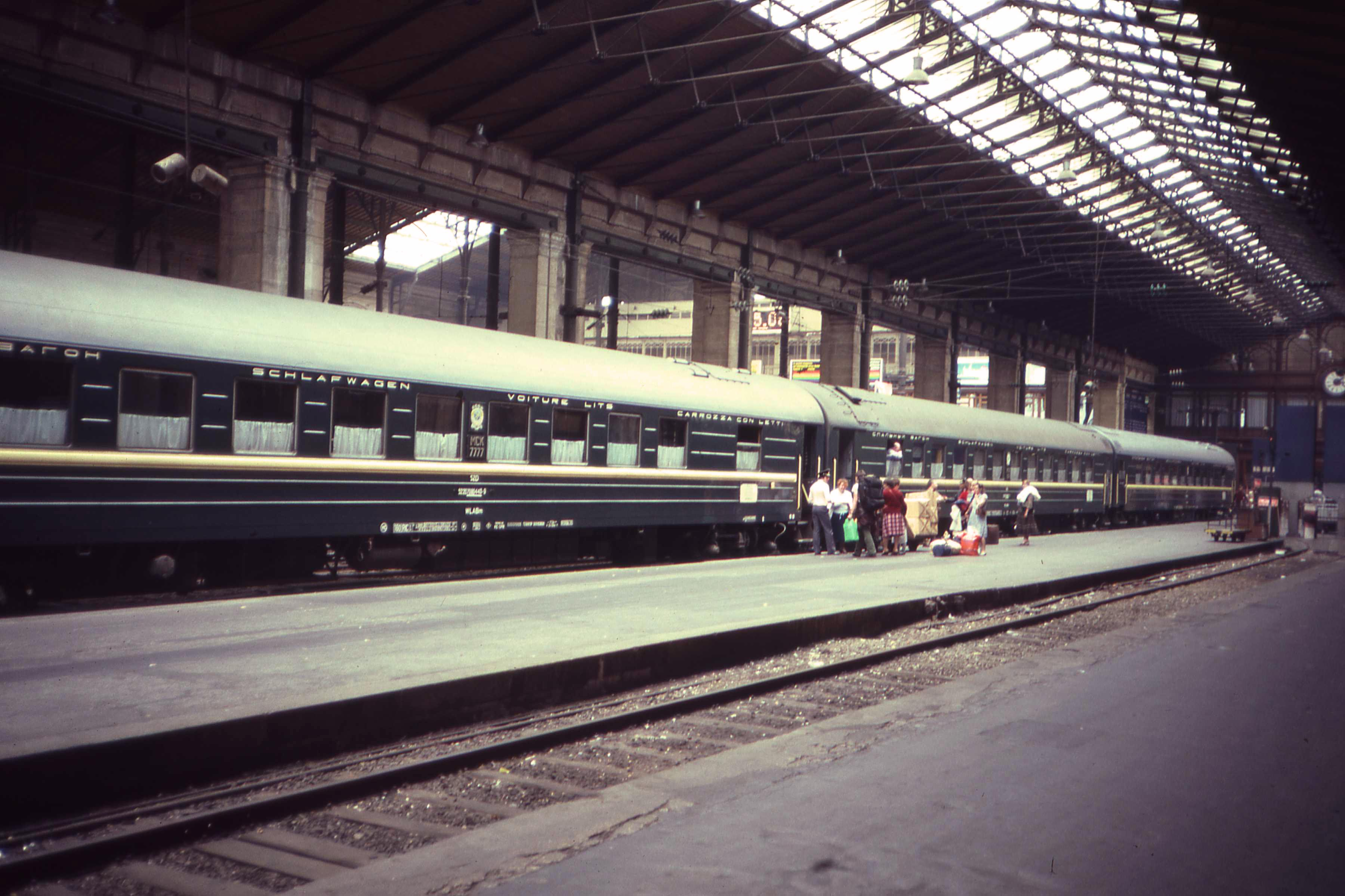 Russian sleeping cars in Paris in 1988, during the cold war.